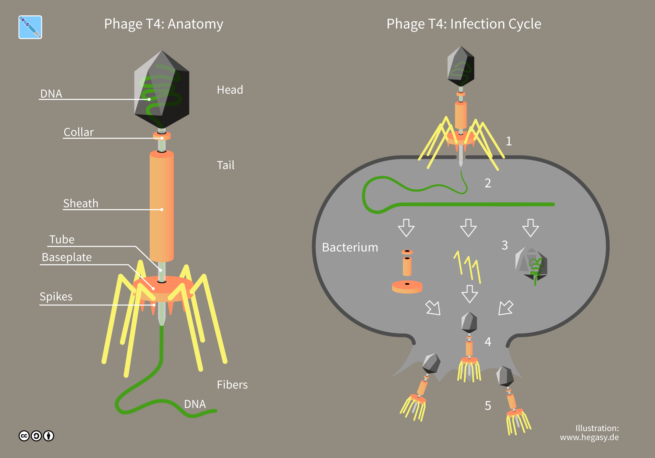 Anatomy and infection cycle of phage T4. 1: Attachment of phage's fibres to a bacterium, 2: Injection of DNA, 3: Synthesis of phage components, 4: Assembly of new phages, 5: Burst of bacterium and release of infectious phages.